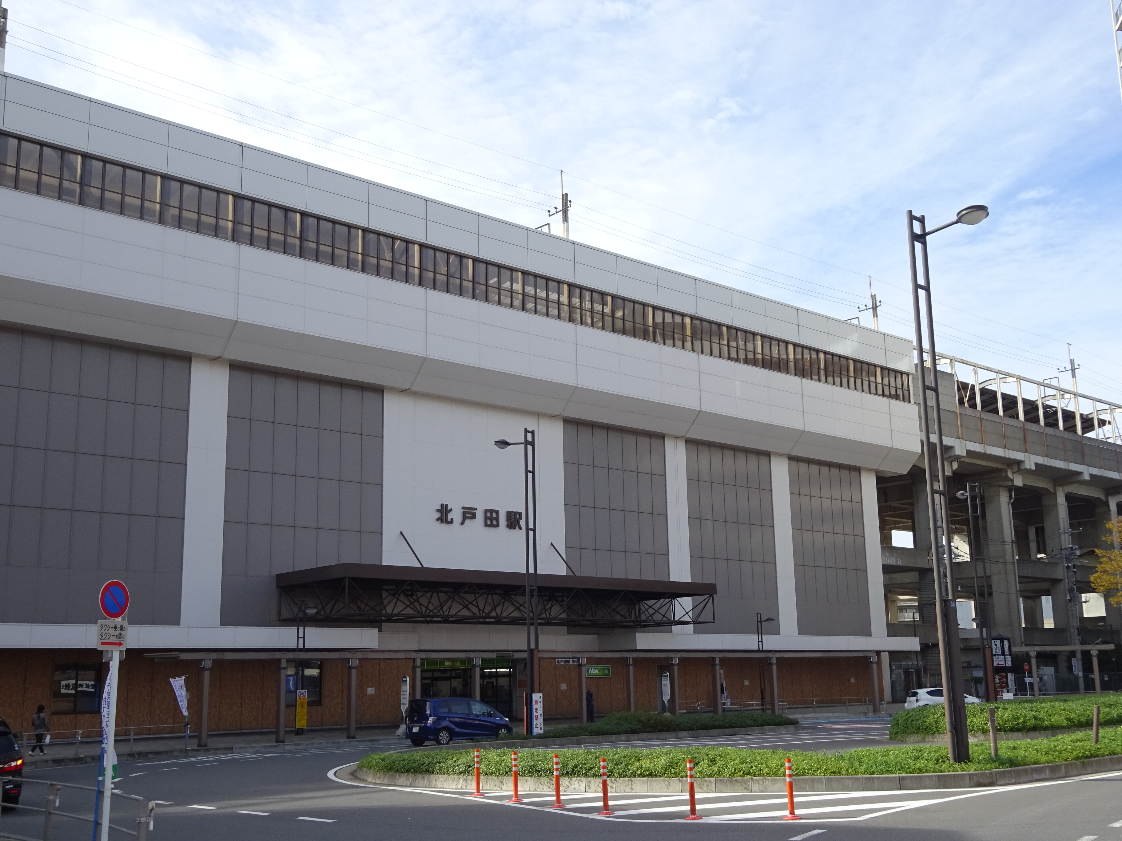 East Entrance of Kita-Toda Station